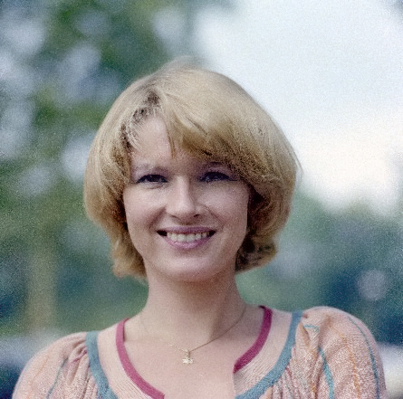 Image from All images released under a CC-by-SA license. Martine Bijl is a dutch tv personality, singer, comedian, actress, etc. Image taken in 1978.